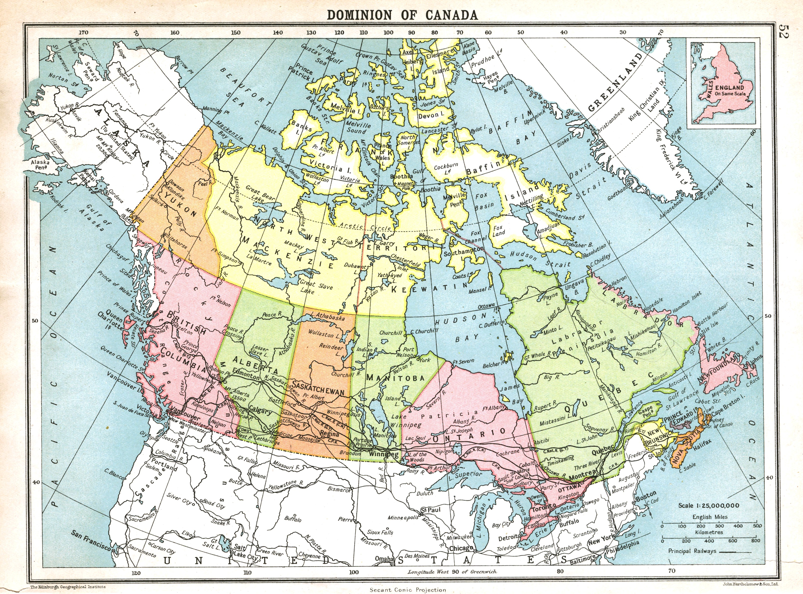 Political & administrative map of Canada. Developer by Edinburgh Geographical Institute. Printed by Bartholomew & son.